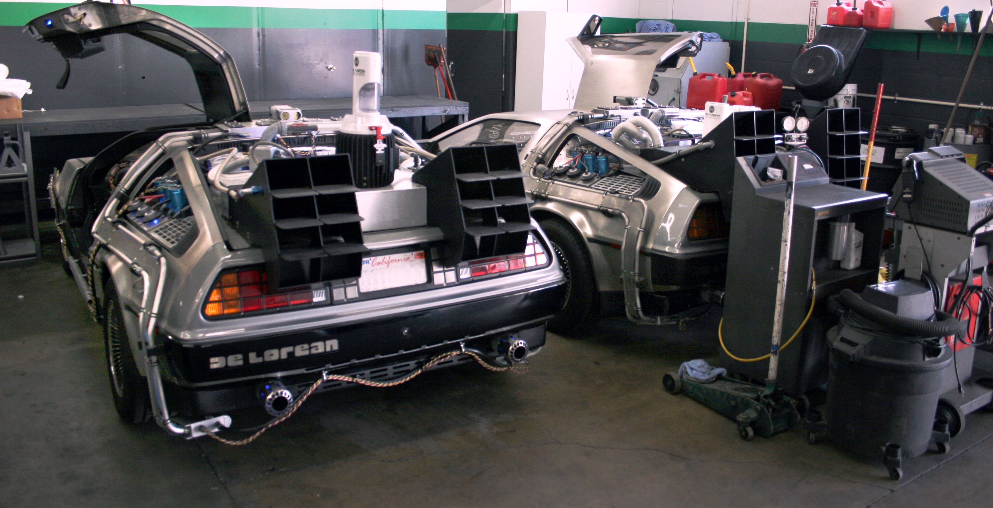 DMC Deloran "Back to the Future" Time Machine